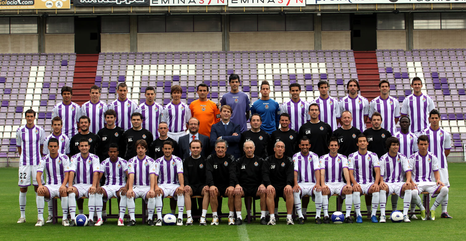 Real Valladolid's oficial photo por the 2010/11 season.